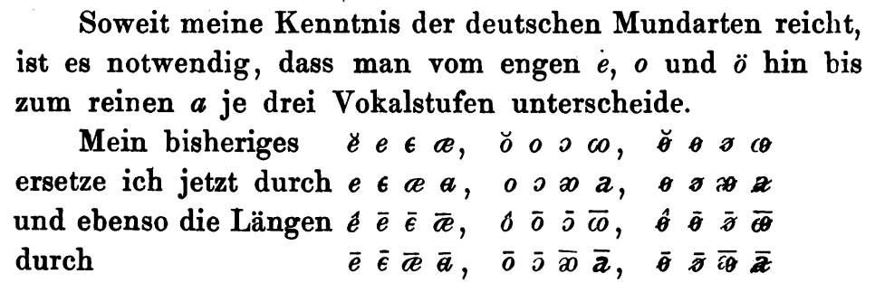 Table showing Bremer’s transcription old and new symbols for e, o and ö vowels (in particular ꬰ, ꭃ, ꭄ).